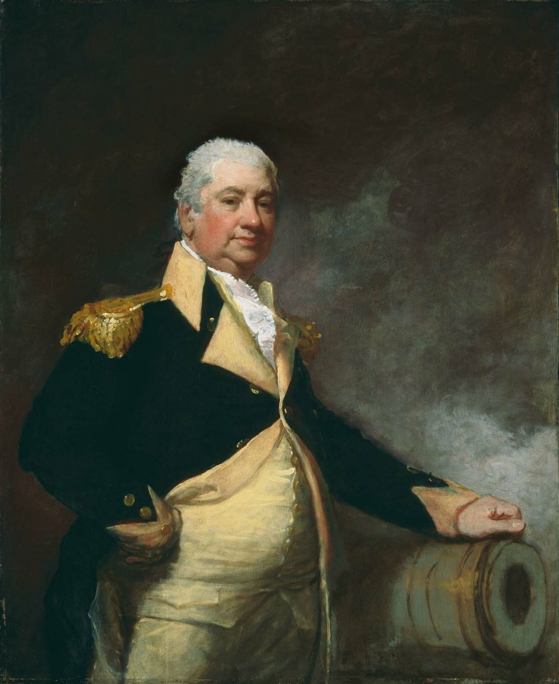 "Henry Knox," by the American artist Gilbert Stuart. 47.88 in. x 38.63 in. Courtesy of the Museum of Fine Arts, Boston. Image courtesy of The Athenaeum.